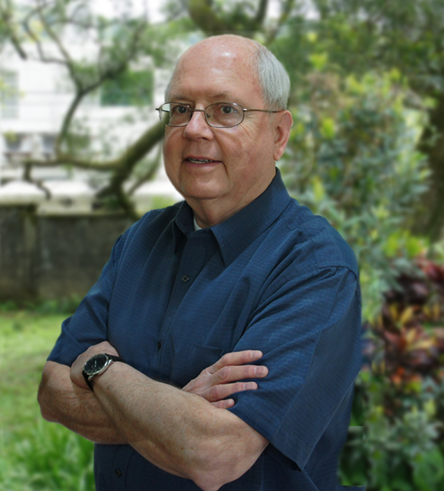 Keith J. Roberts